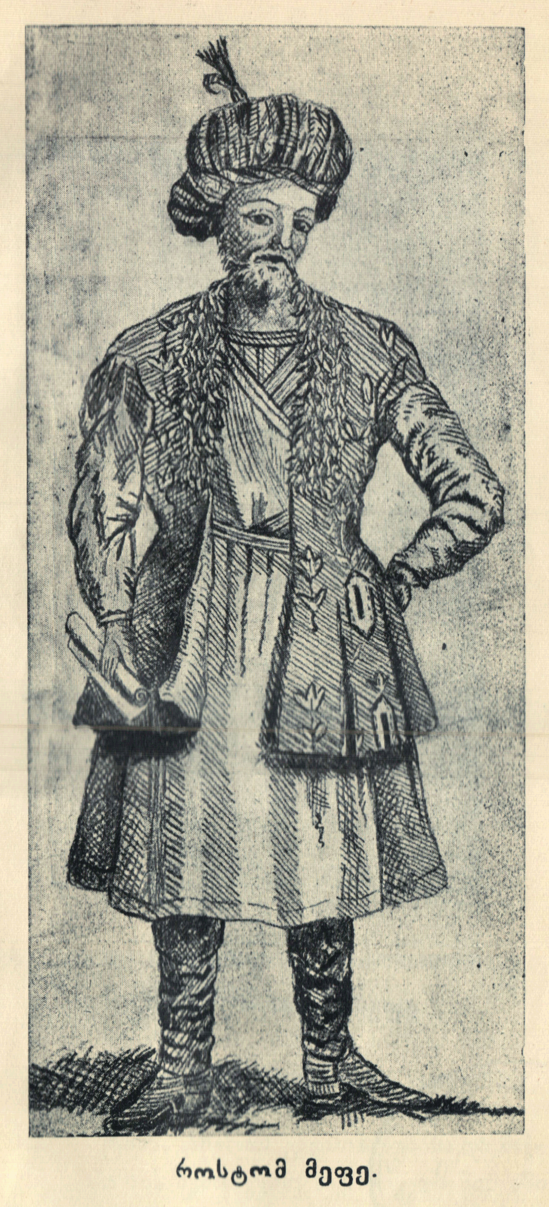 King Rostom of Kartli